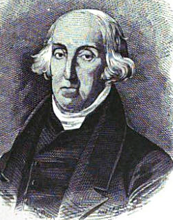 Portrait of Thomas Melvill